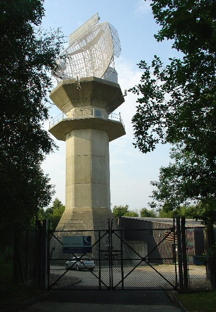 Pease Pottage Radar Station. Taking advantage of this relatively high site (140m above sea level), 80m above Gatwick airport, this is an air traffic control radar. Painted white to blend into the sky.